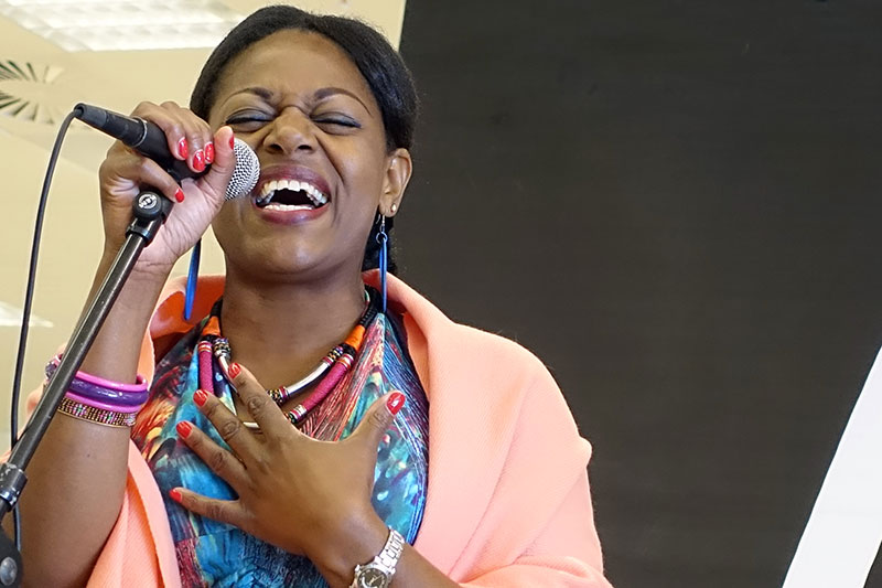 Miriam Mandipira @ Aarhus Jazz Festival 2014